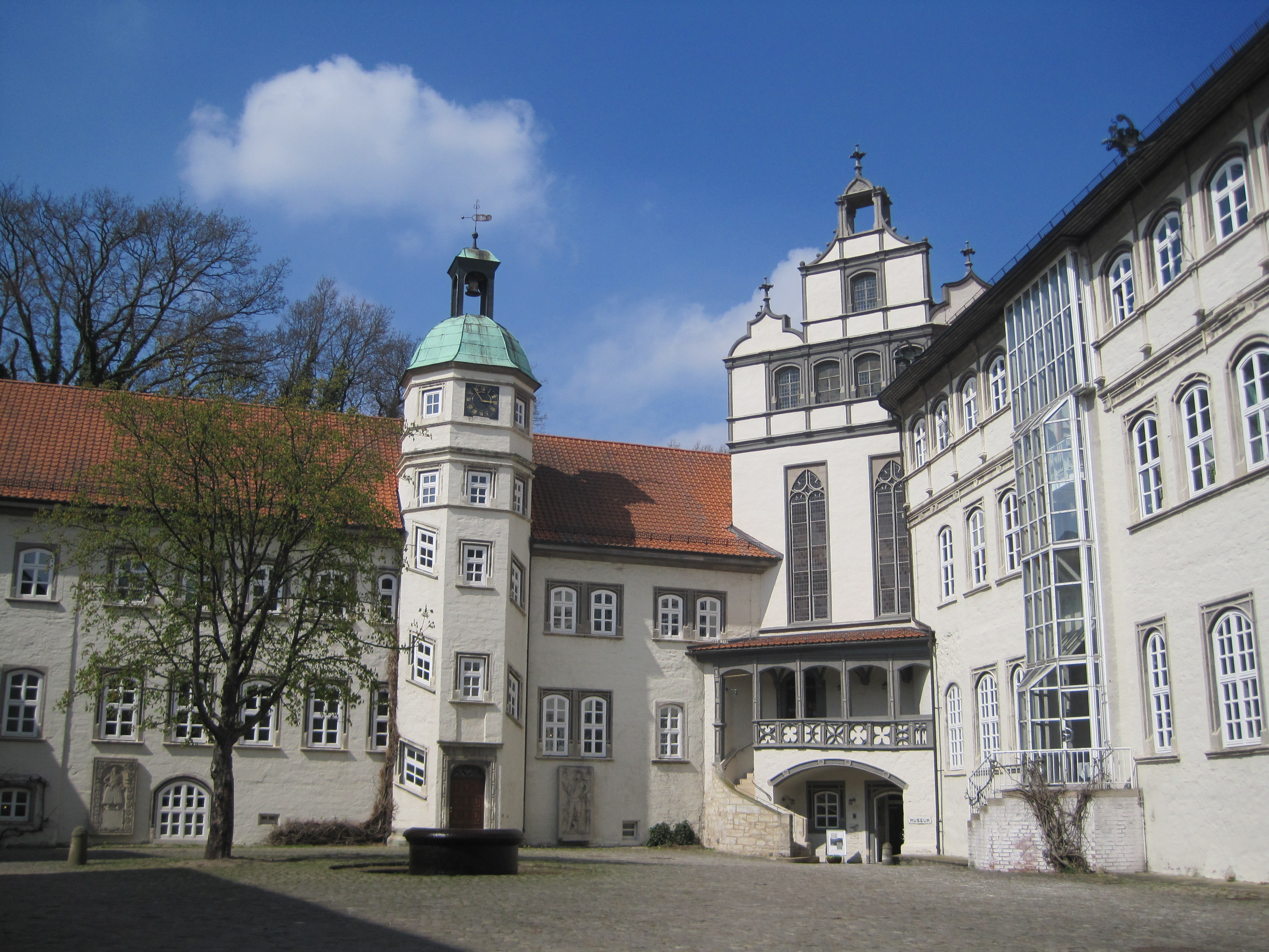 Castle, Gifhorn, Germany check usage Address Schloßplatz 1 38518 Gifhorn Germany